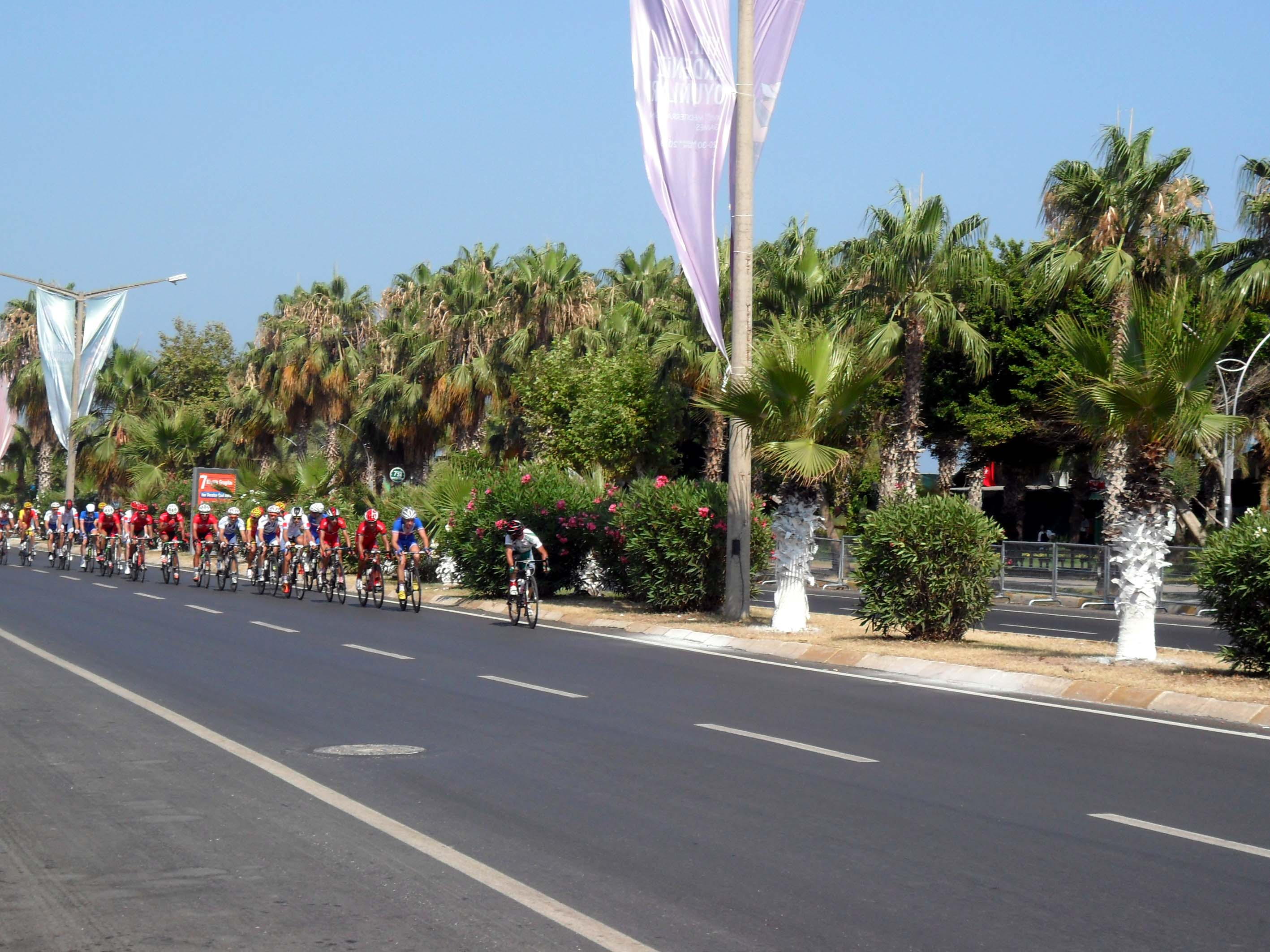 Adnan Menderes Boulevard. Mersin, Turkey in 2013 Mediterranean Games Cycling event.jpg